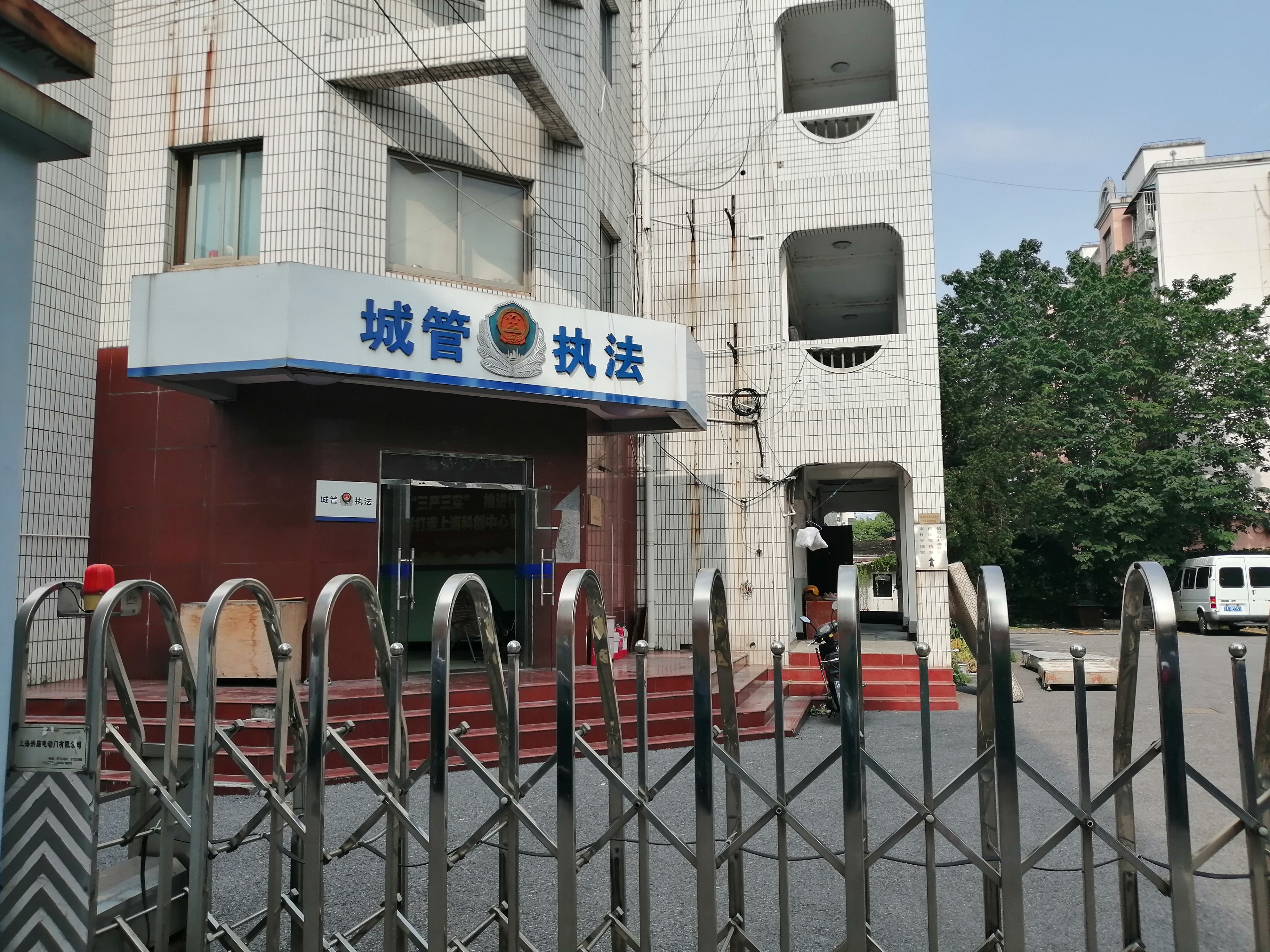 An urban Administrative and Law Enforcement Bureau located in Yangpu District, Shanghai. 中文（中国大陆）: 上海市杨浦区的一个城管执法所